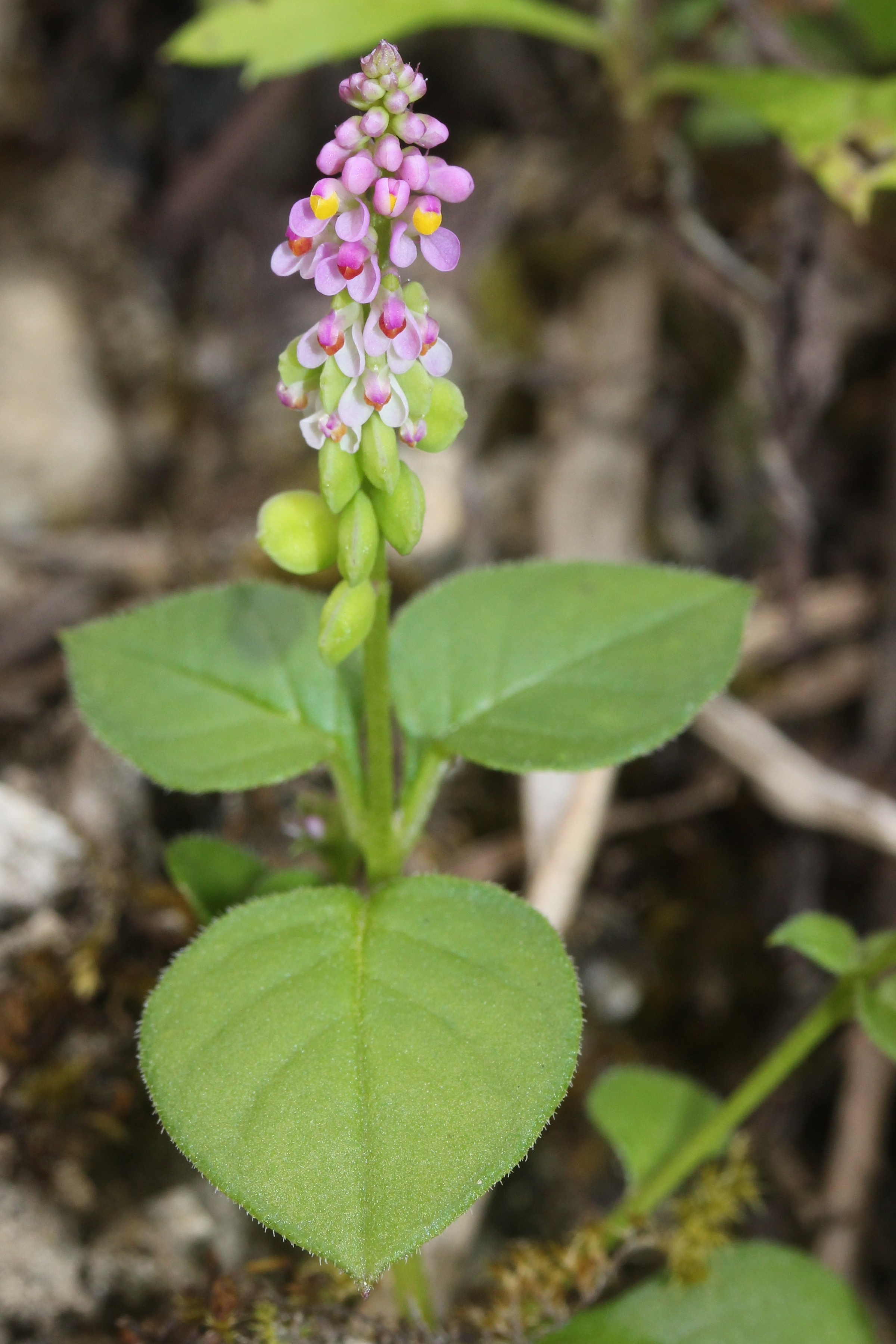 Polygala tatarinowii in Mount Ibuki, Ibigawa, Gifu prefecture, Japan.